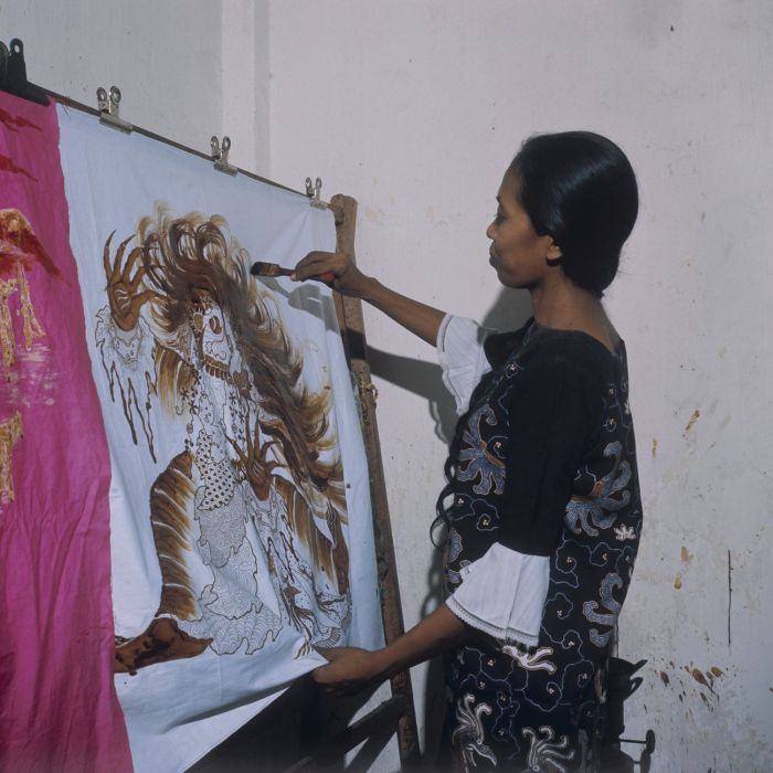 Woman batiking a textile which presents an image of Rangda